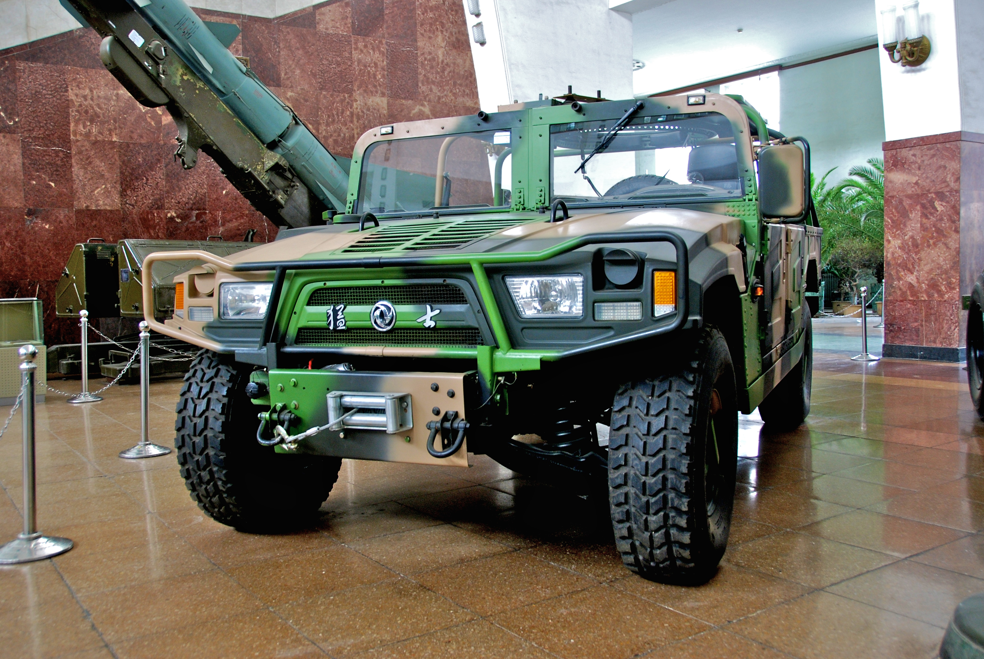 Dongfeng EQ2050 in exhibition in a museum.